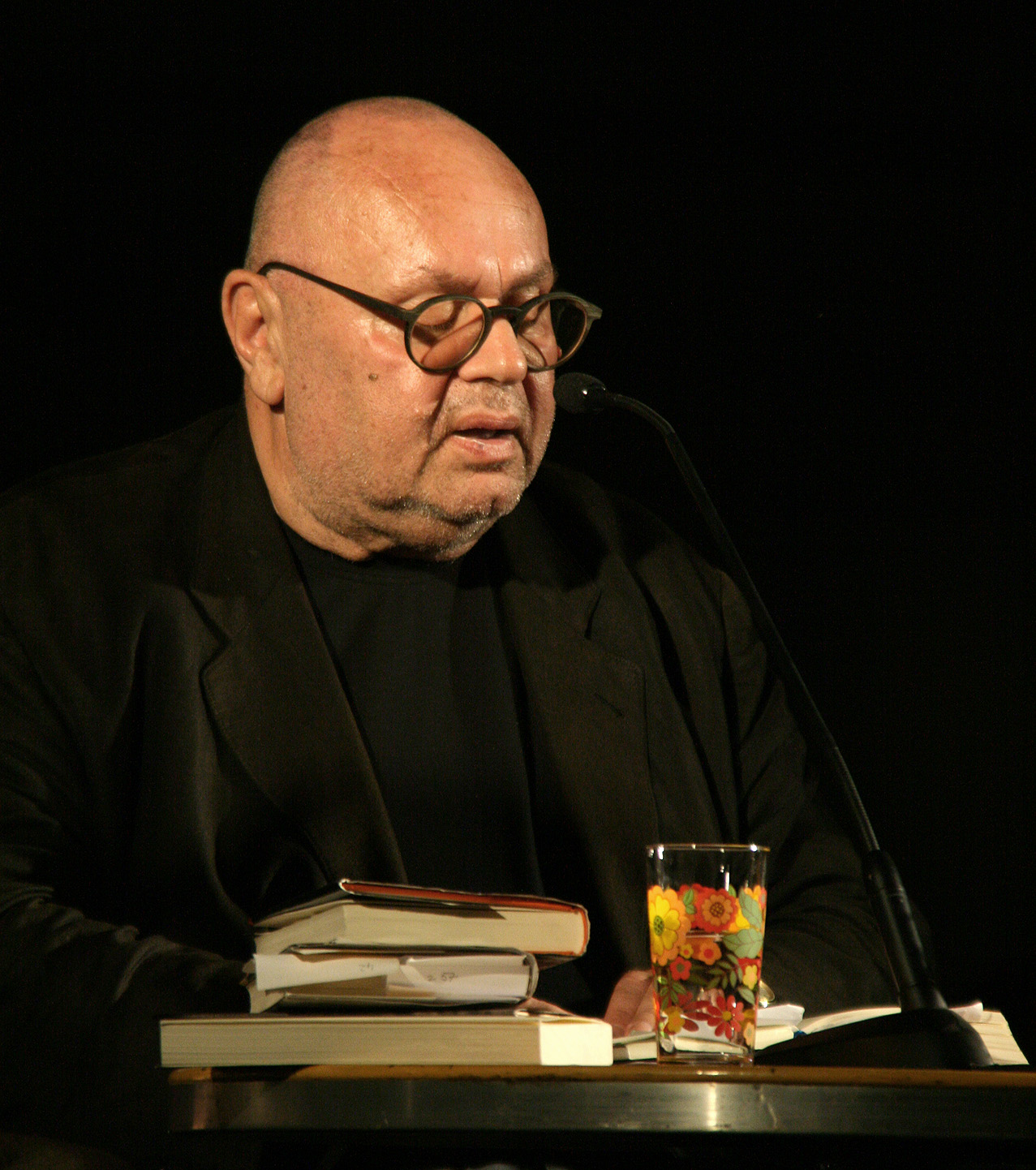 Austrian writer Franz Schuh; reading at the literary festival O-Töne at the MuseumsQuartier in Vienna, Austria.